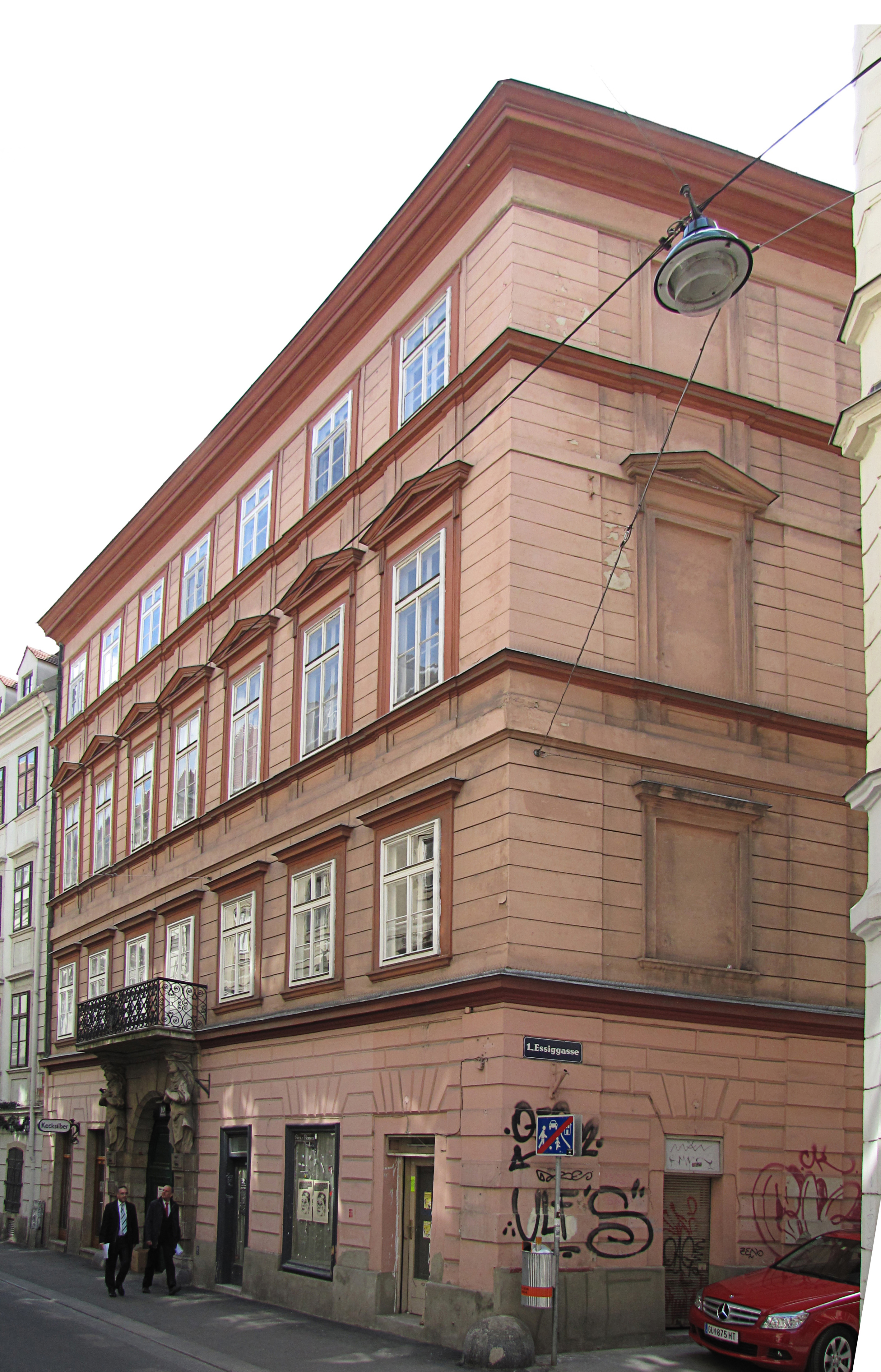 view of former Nimptsch palace, view against east.